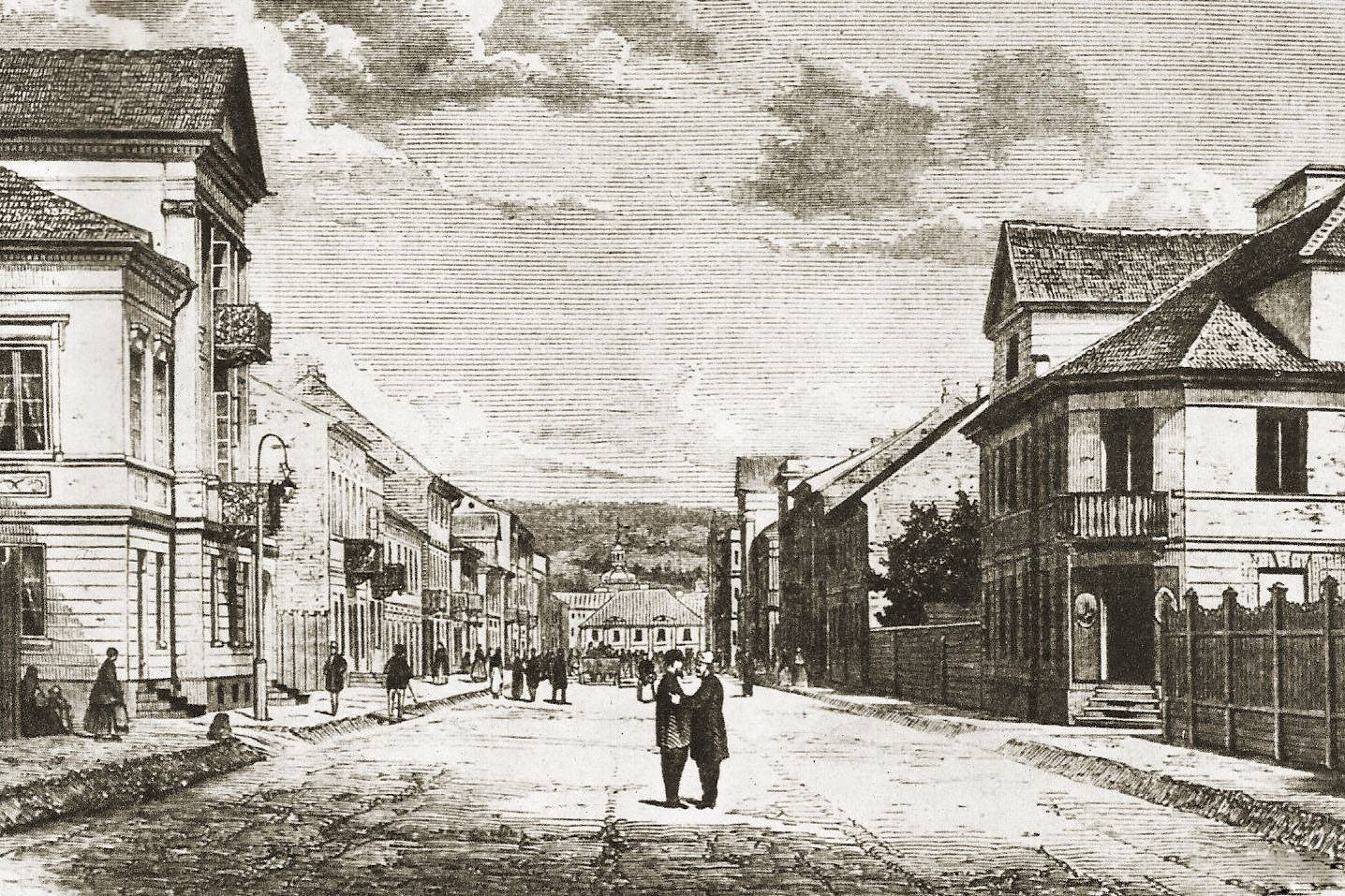 3'rd May Street in Włocławek on woodcut by Adolf Kozarski, made in 1868 year. On the background there is a unexist Town Hall and tower of Saint John the Baptist Church.